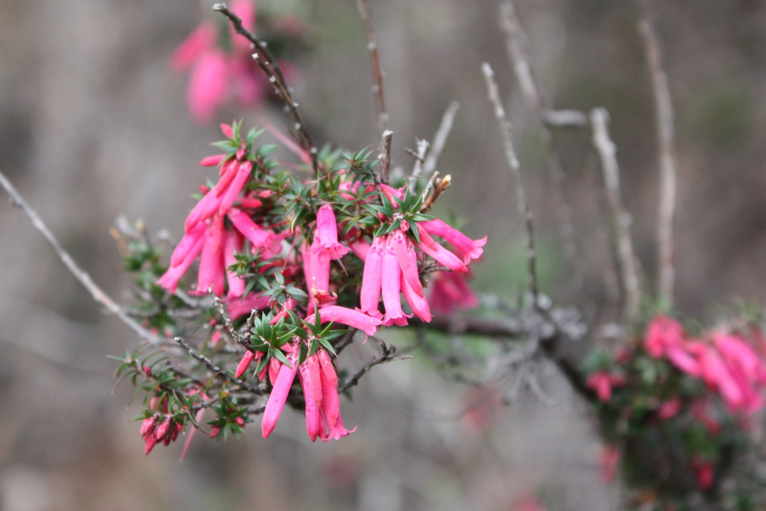 Common Heath (Epacris impressa), Tasmania, Australia